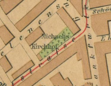 Karte des Michaelisfriedhofs in Braunschweig 1914.